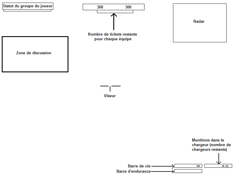 Diagram of the HUD in the video game Battlefield 2142.